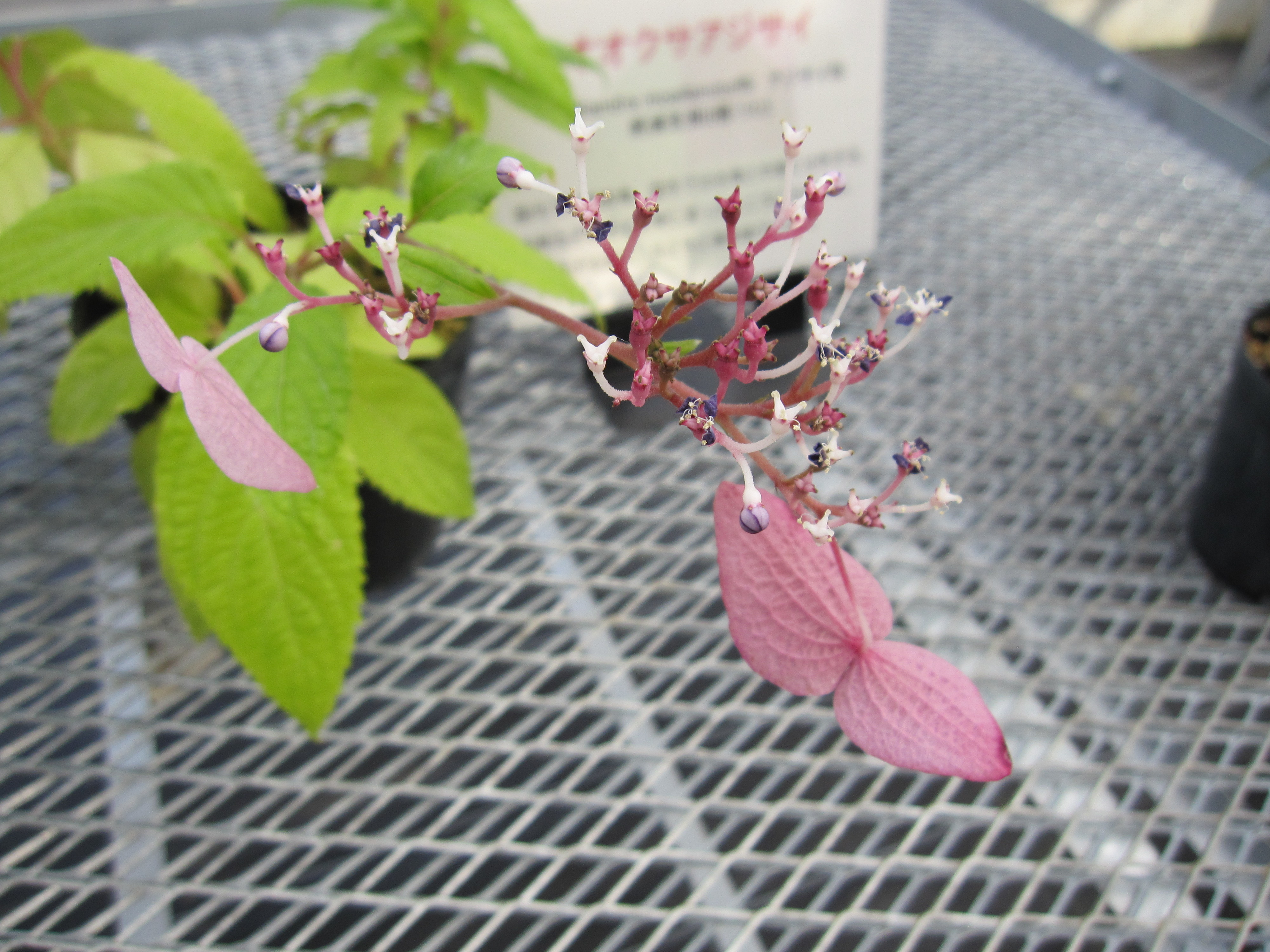 Cardiandra moellendorffii, Photographed at Tsukuba Botanical Garden, October 2012.